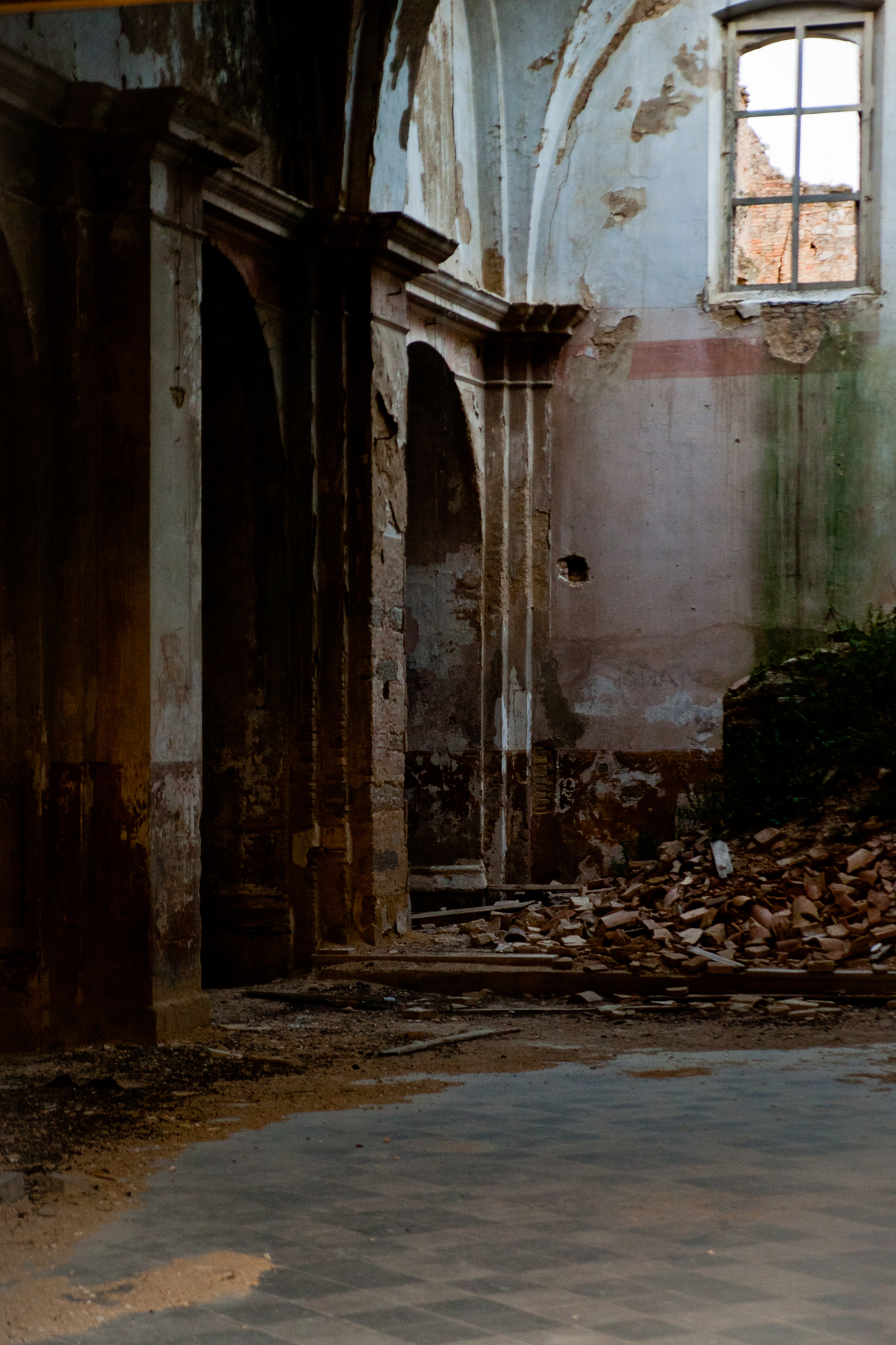 Craco, interior of a building